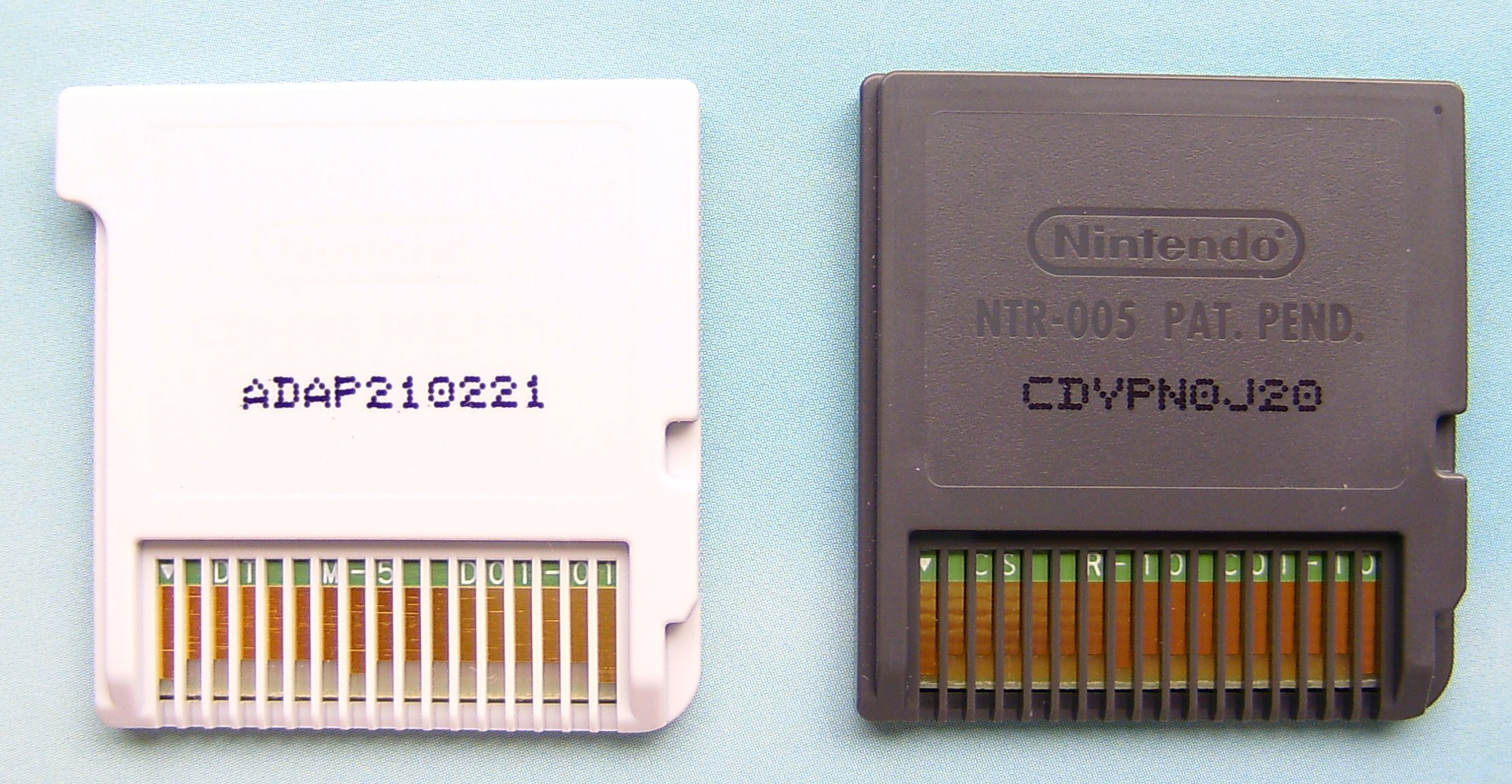 comparison of new Nintendo 3DS (left) and old (backwards compatible) Nintendo DS cartridge (backsides)